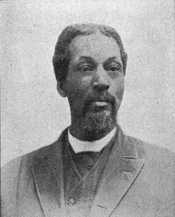 Photograph of Rev. Richard Bassett, a Baptist minister who was elected to the Indiana House of Representatives in 1892. Published in the 1892 book Our Baptist Ministers and Schools, by A.W. Pegues.